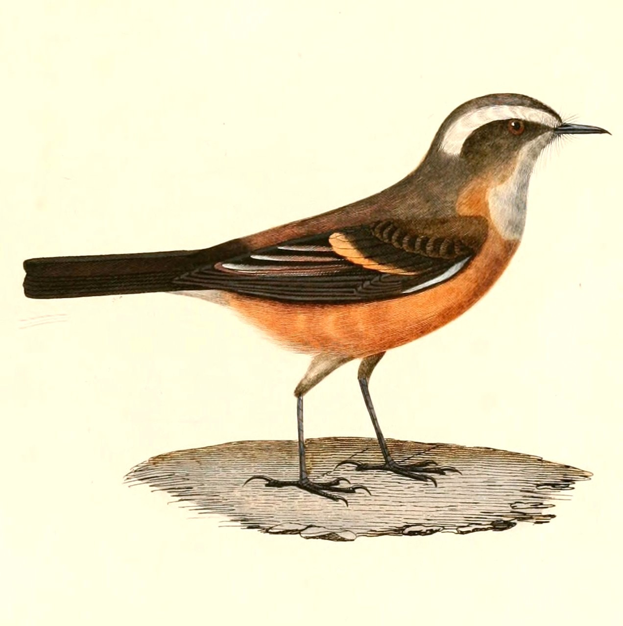 « Fluvicola oenanthoides » = Ochthoeca oenanthoides (D'Orbigny's Chat-Tyrant)